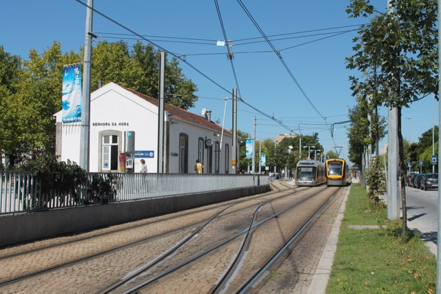 The Senhora da Hora stop of the Metro do Porto. At the left the old station building of the extinct narrow gauge railway.